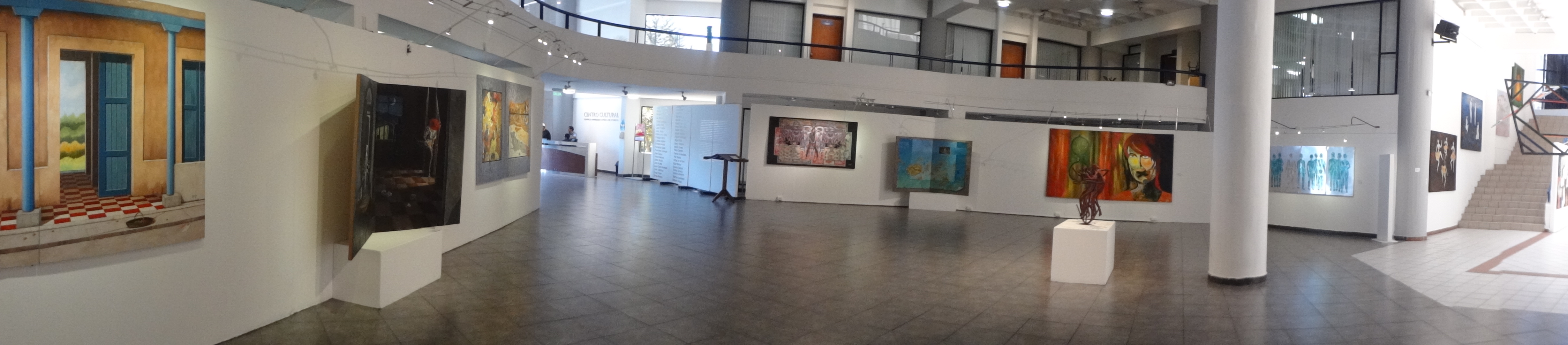 Inside the during an exhibit. on the campus of Catholica, also known as PUCE Quito, Ecuador Photographed by David Adam Kess